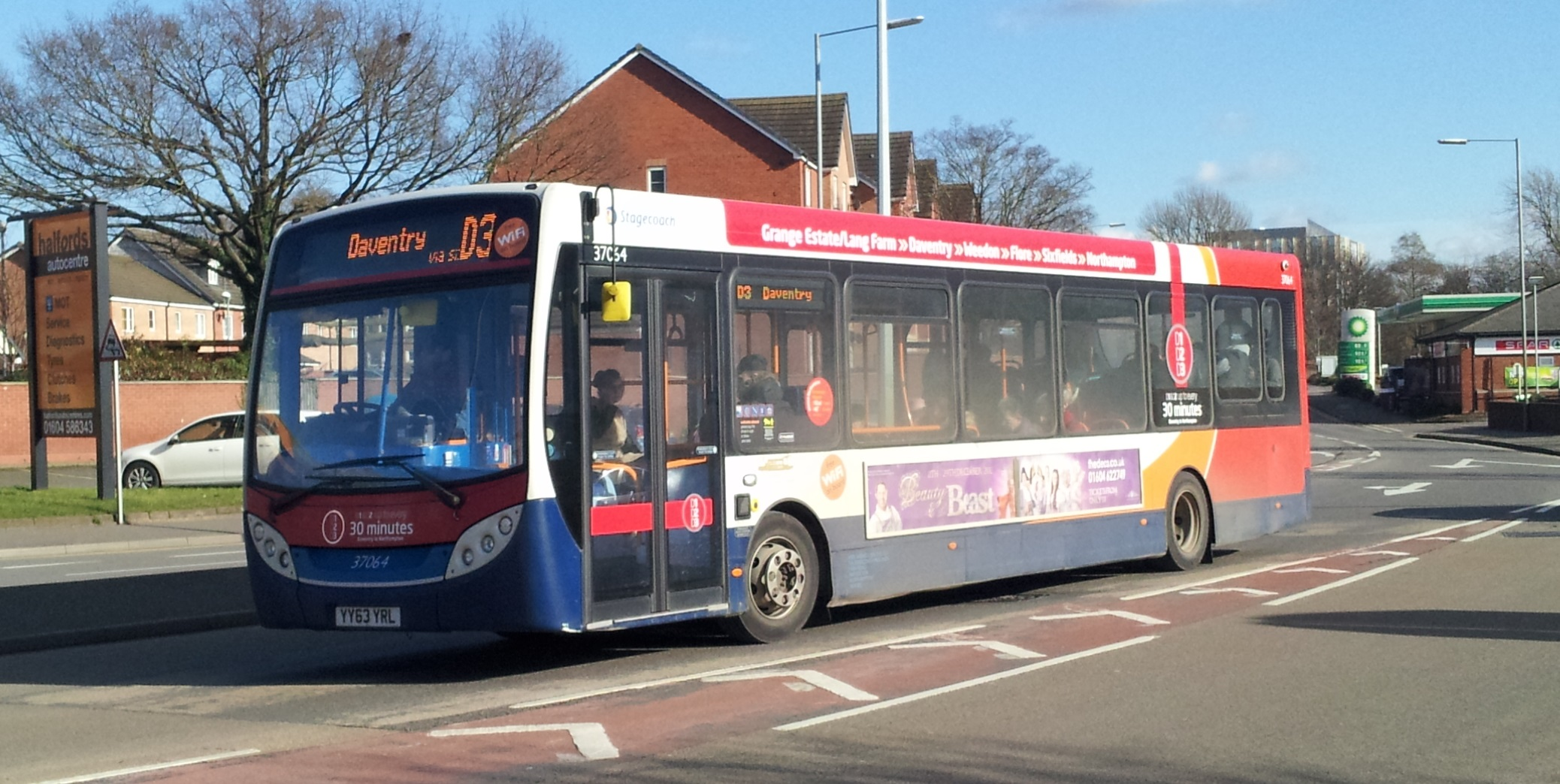 A Stagecoach Midlands (Northampton) Enviro200 vehicle with Daventry markings for routes D1/D2/D3. Note the exception of "Daventry Dart", a sub-brand name no longer used.